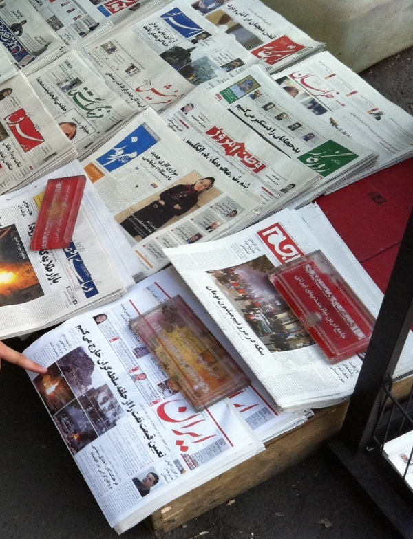 Iranian press in Tehran